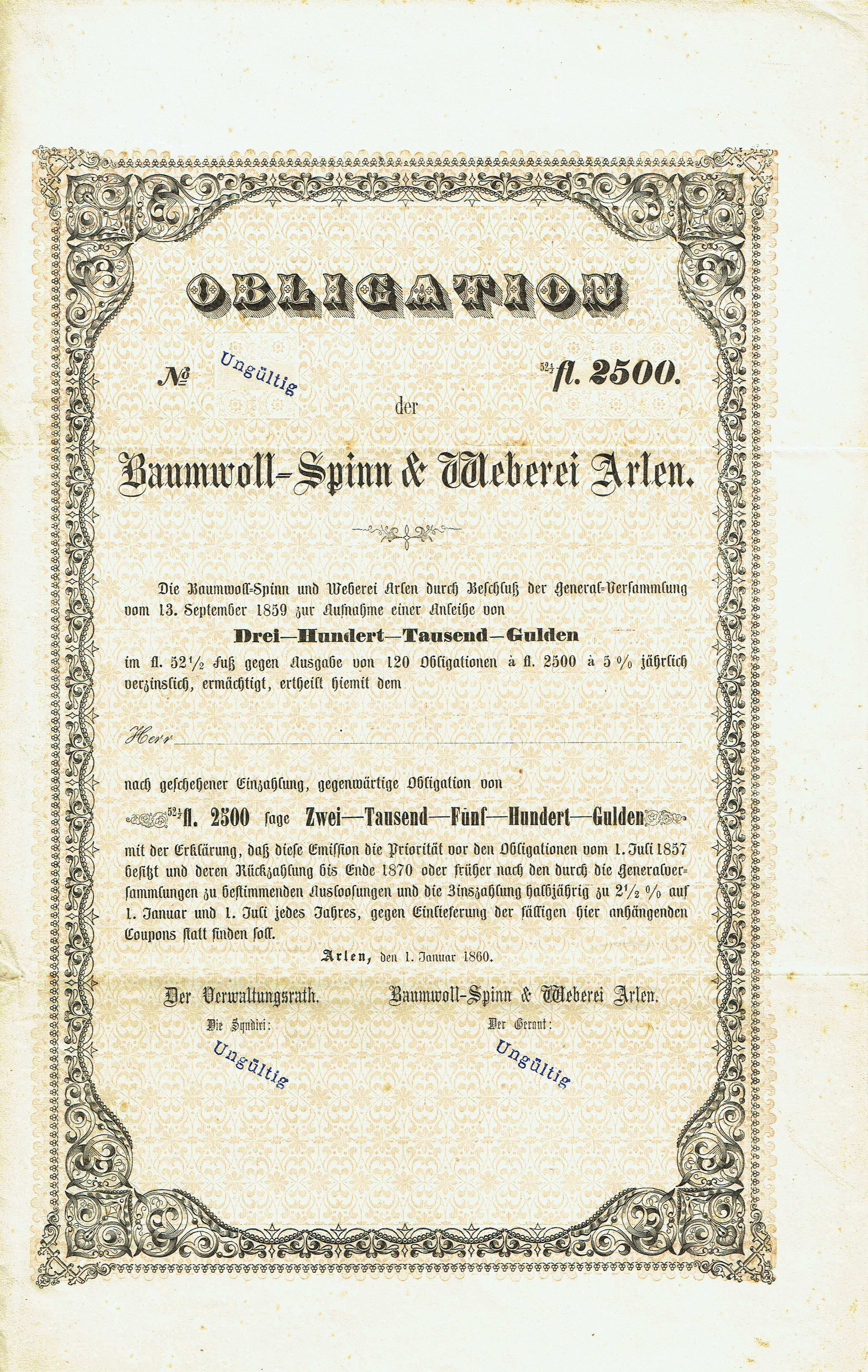 Bond of the Baumwoll-Spinn & Weberei Arlen, issued 1. January 1860